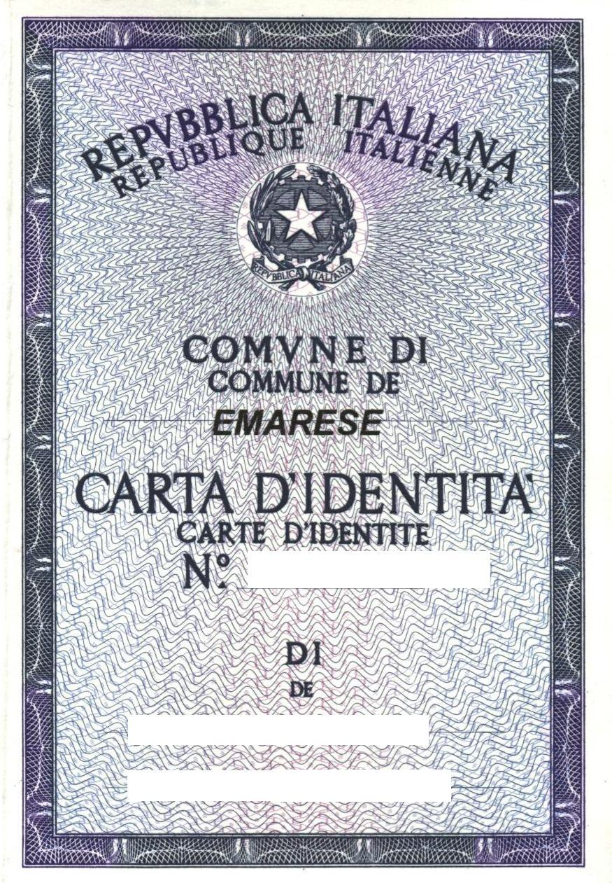 Aosta Valley bilingual identity card